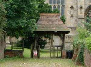 A church lych gate